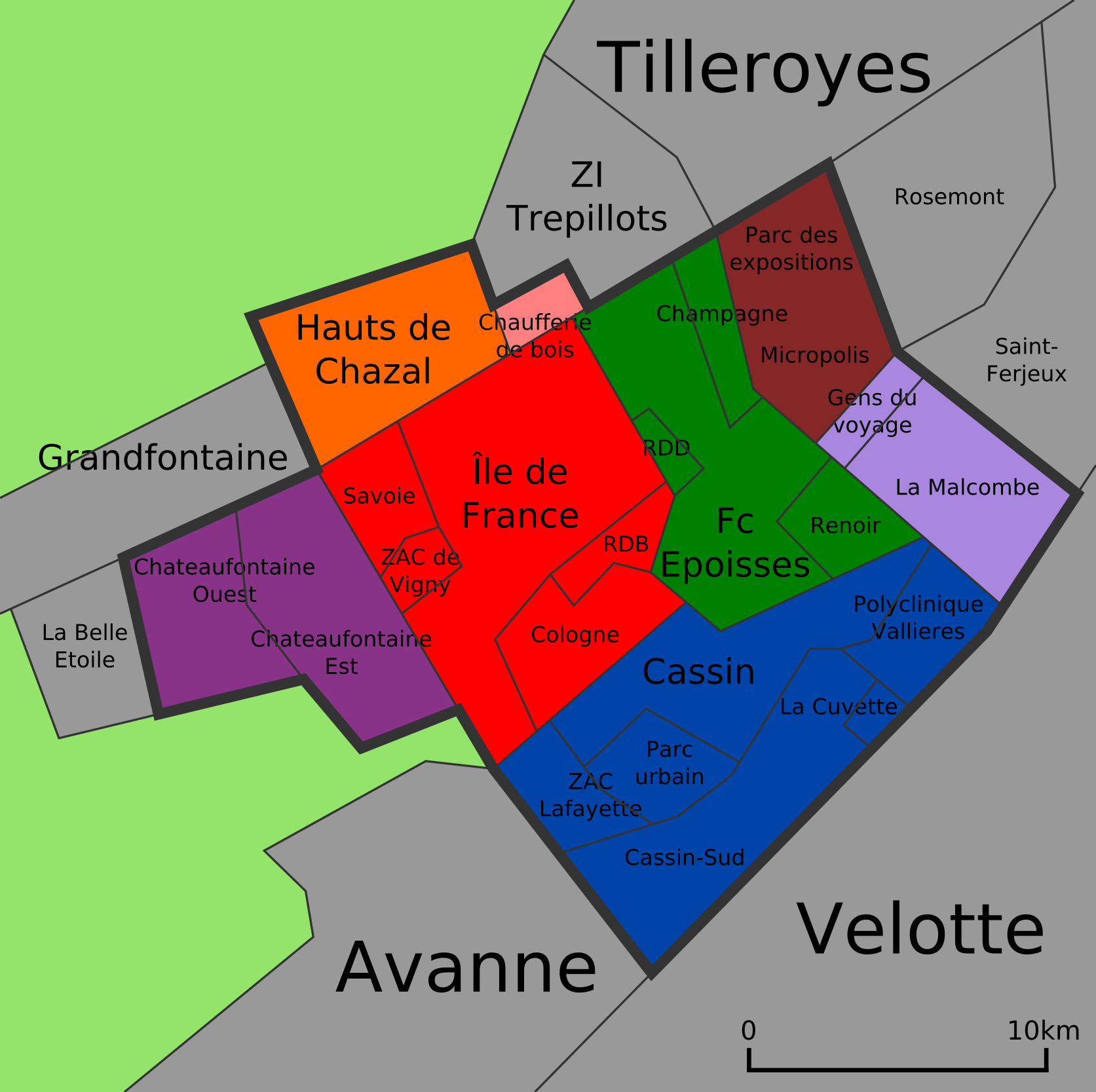 Map of Planoise, area of Besançon (France)